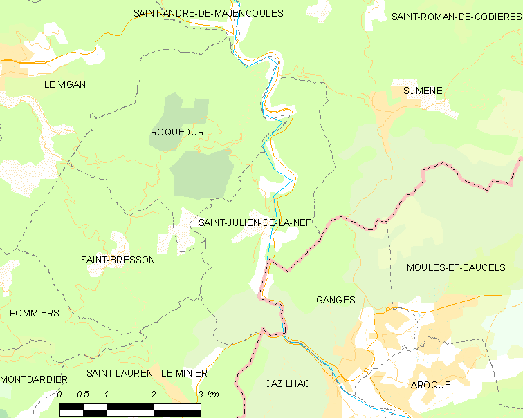 Map commune FR insee code 30272.png - Saint-Julien-de-la-Nef